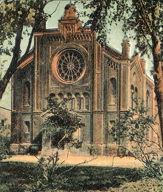 Synagogue in Świdwin